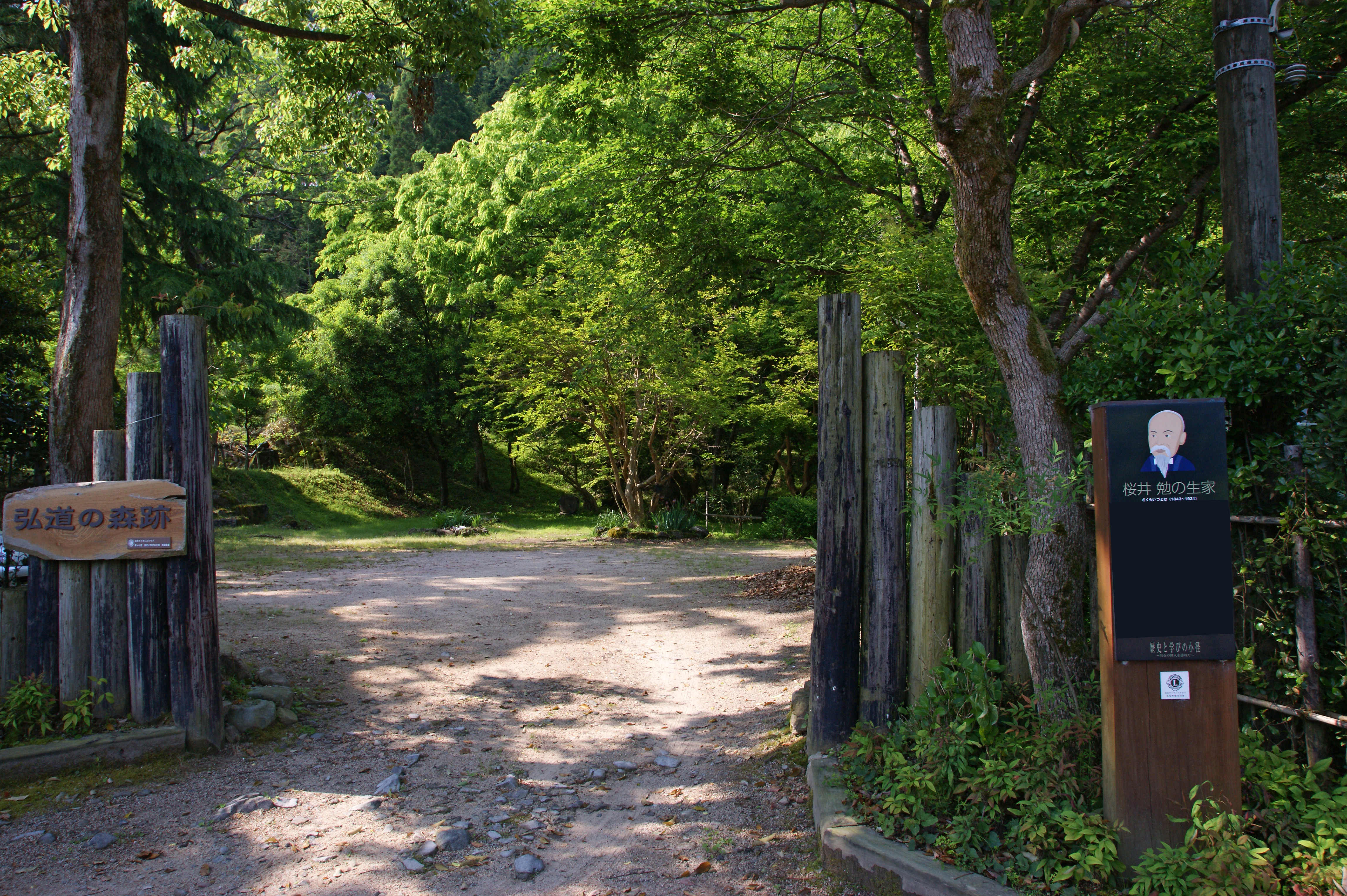 Tsutomu Sakurai's Birthplace in Izushi, Toyooka, Hyogo prefecture, Japan